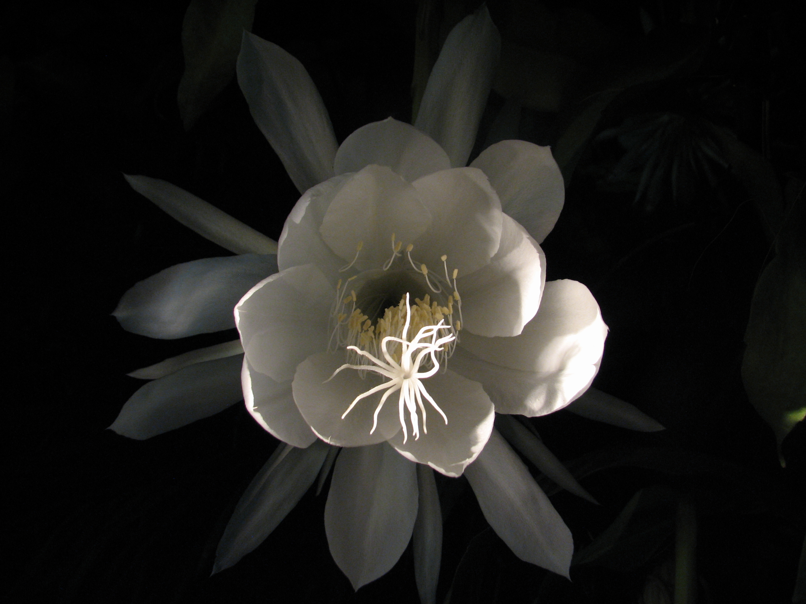 This is the front view of the flower of Epiphyllum oxypetalum. Illuminated with white LED light.